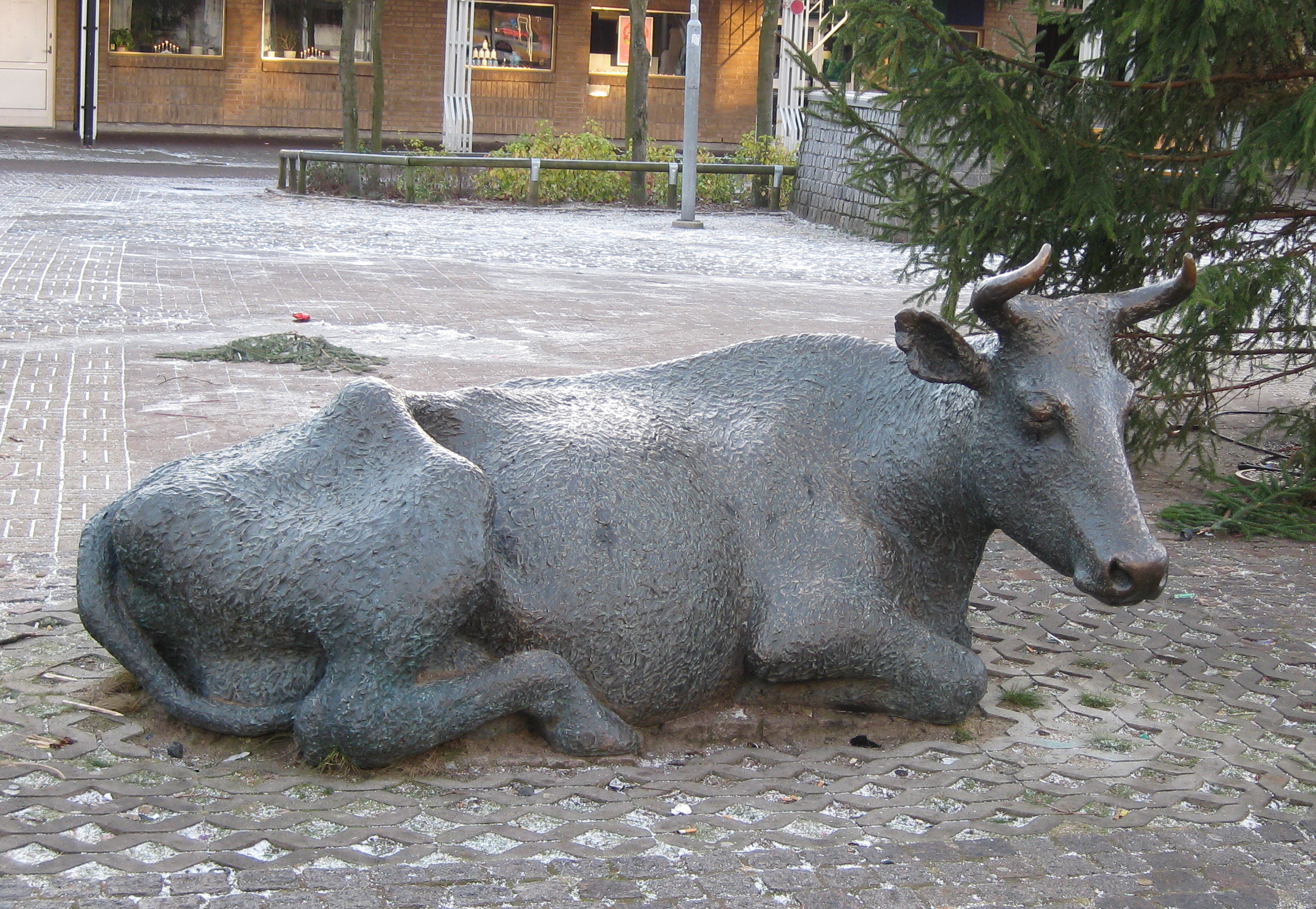 The sculpture Meditation (1985) by Swedish artist Fred Åberg, picturing an ox in the town center of Oxie, Malmö, Sweden